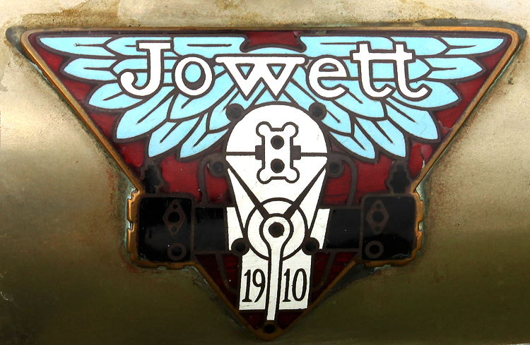 Plaque Jowett Short-chassis tourer (1926)